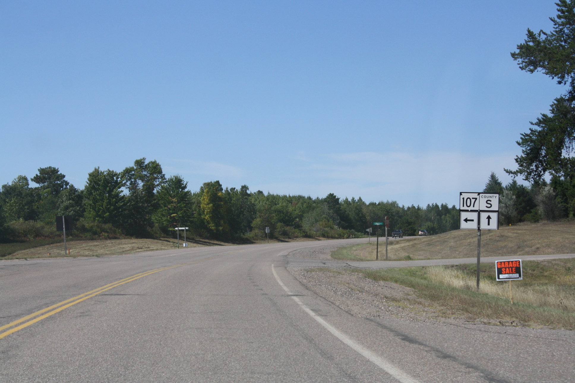 The northern terminus of Wisconsin Highway 107 on County Highway S, south of Tomahawk.